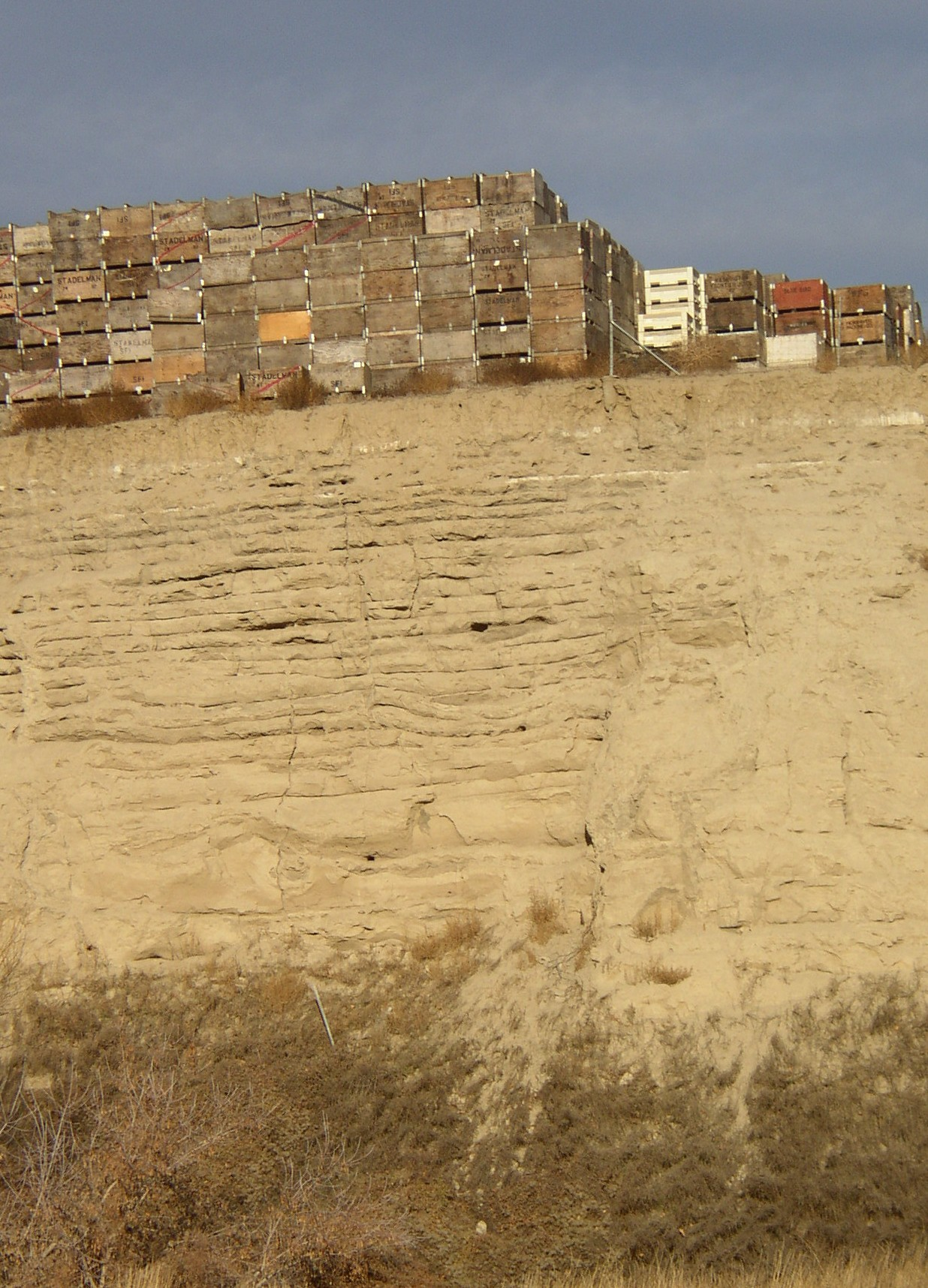 Photo of Touchet Formation located in the Yakima River Valley at Zillah, Washington. Photo taken by uploader in November, 2006. All rights released. Williamborg 00:33, 26 November 2006 (UTC)